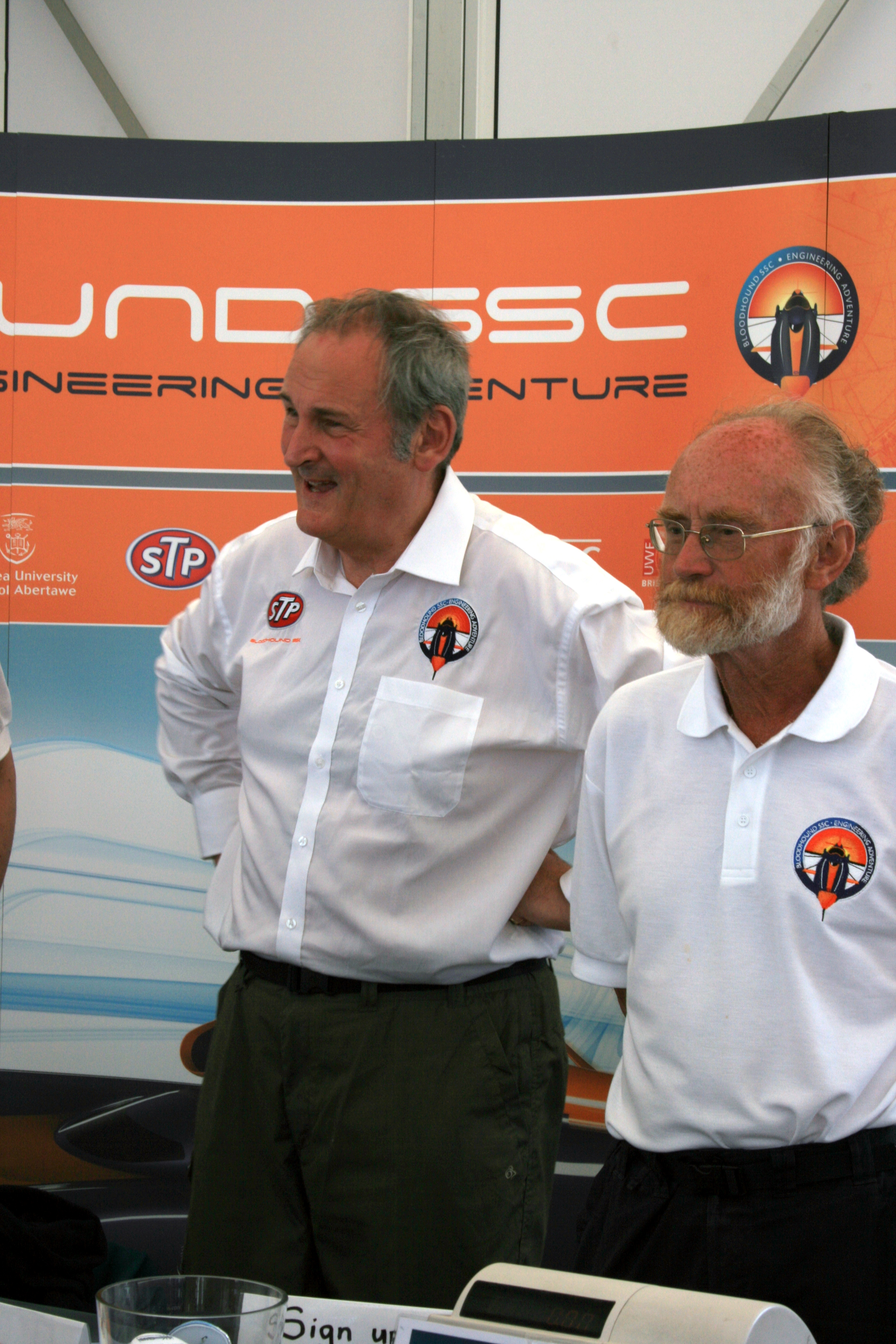 former World Land Speed Record holder